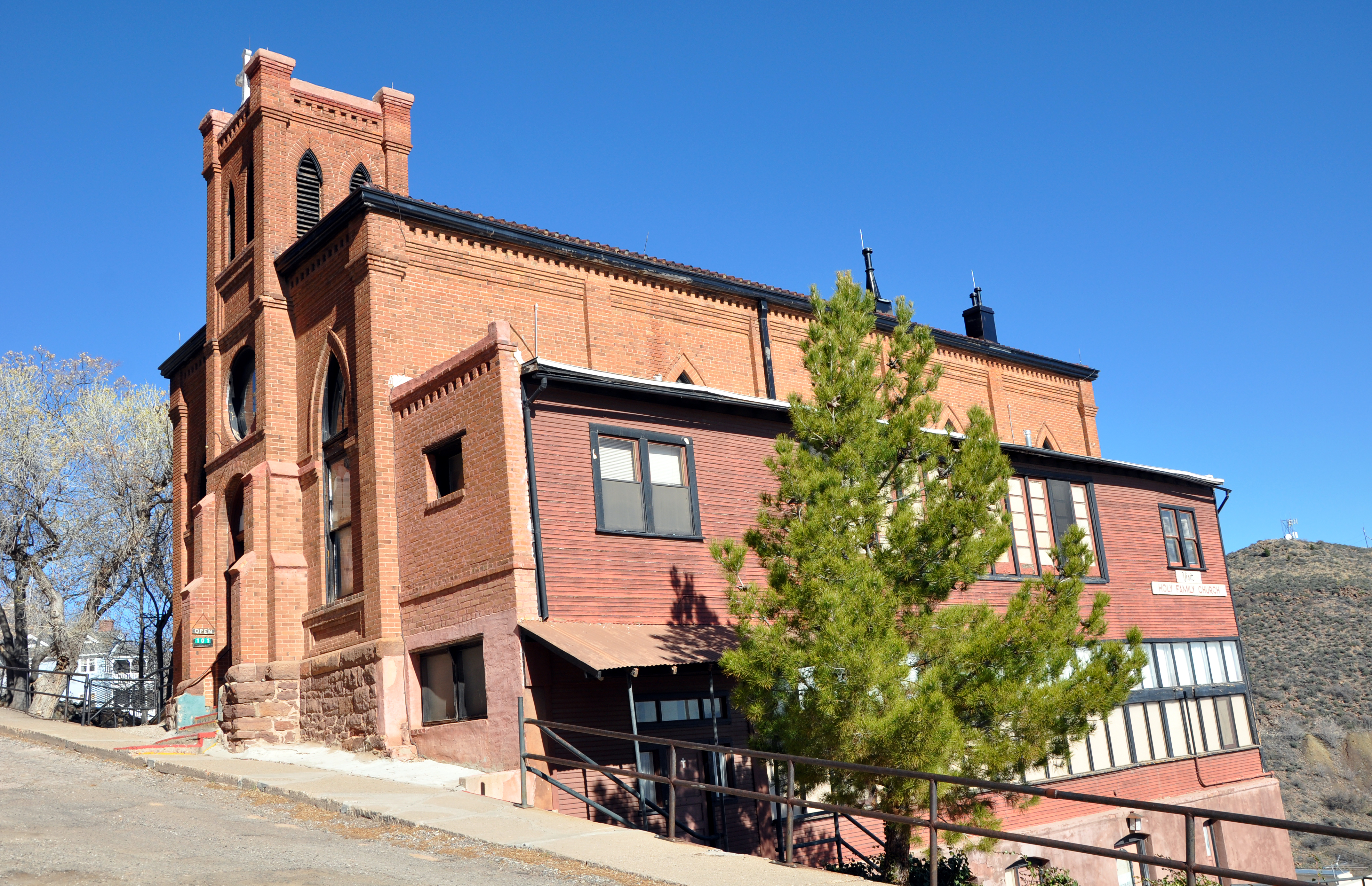 Holy Family Catholic Church in Jerome in the U.S. state of Arizona